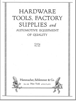 Hammacher Schlemmer Gnome Campaign lasted for many years